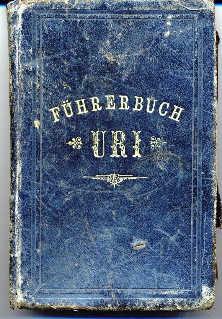 Bergführerbuch Josef Gasser-Gasser von 1907, Lungern OW